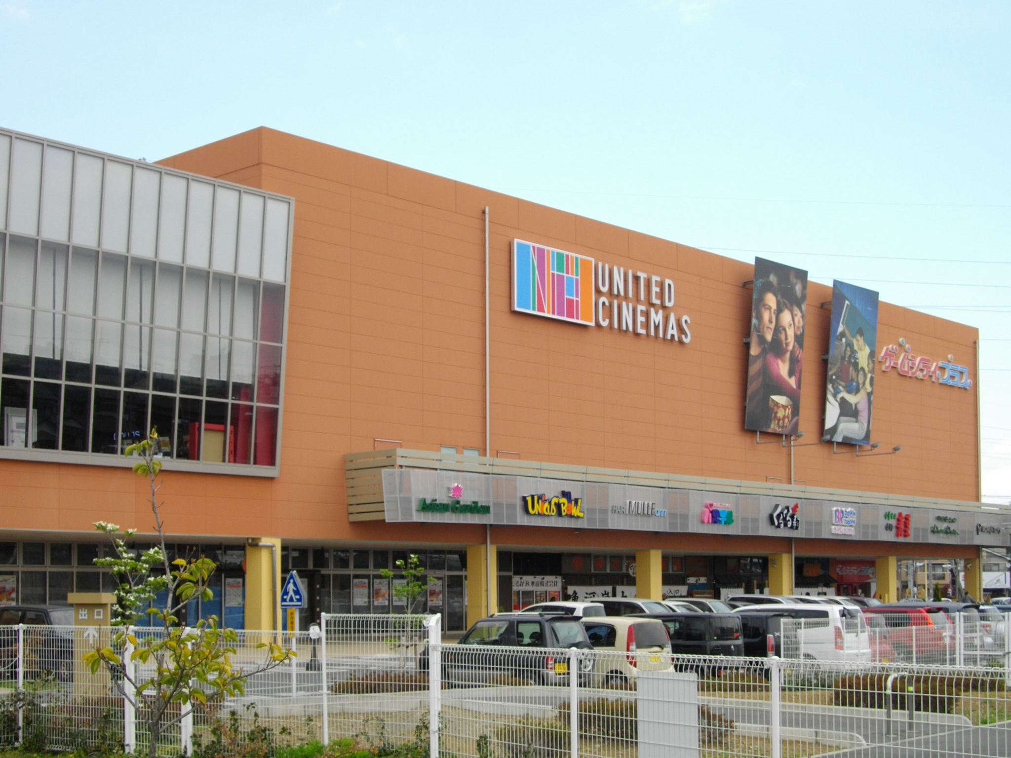 Unicus Minami-Furuya shopping centre in Kawagoe, Saitama, Japan